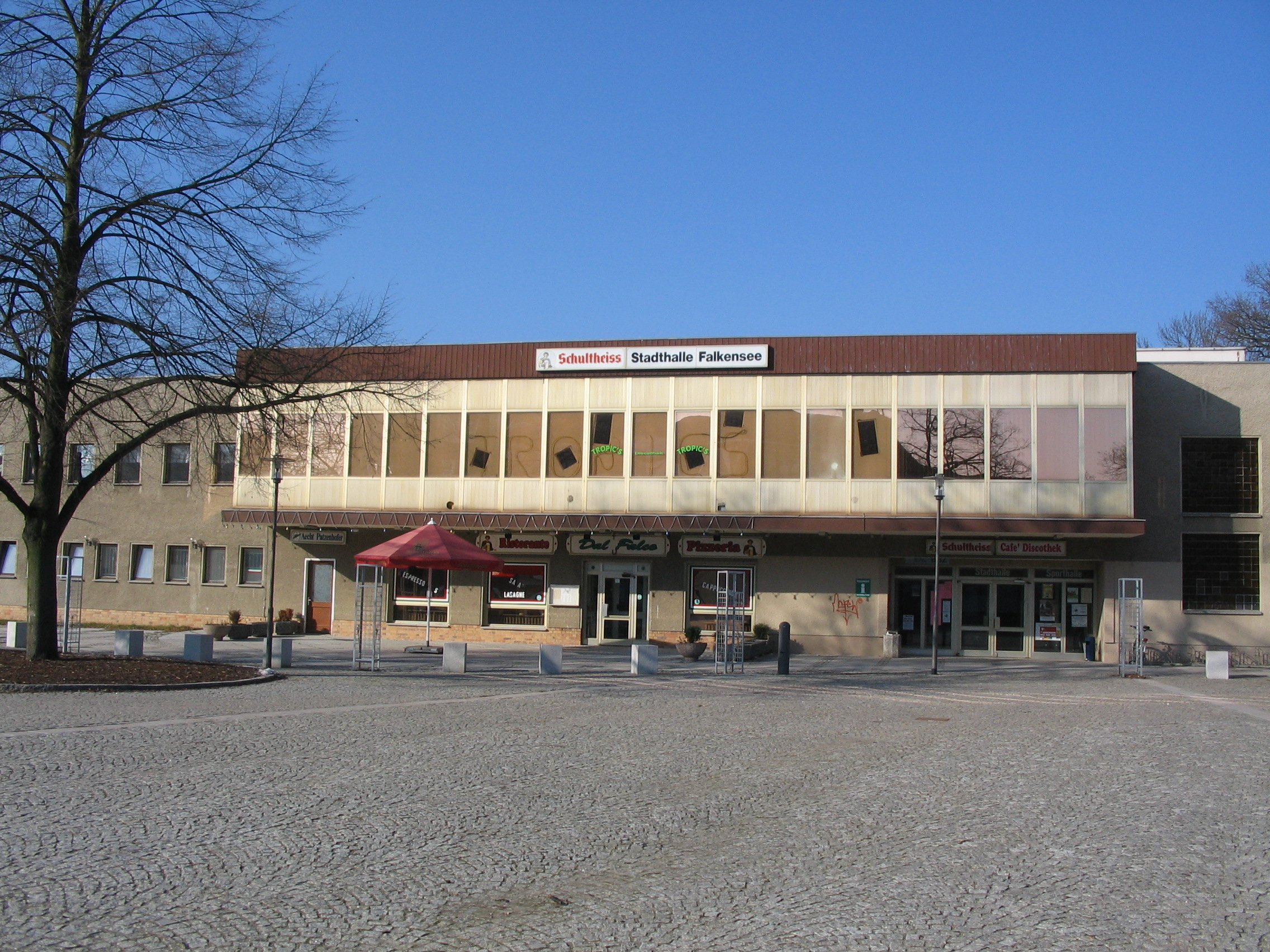 Municipal multi-purpose hall of Falkensee